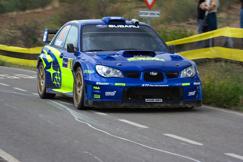 Chris Atkinson driving his Subaru Impreza WRC2007 at the 2007 Rally Catalunya.